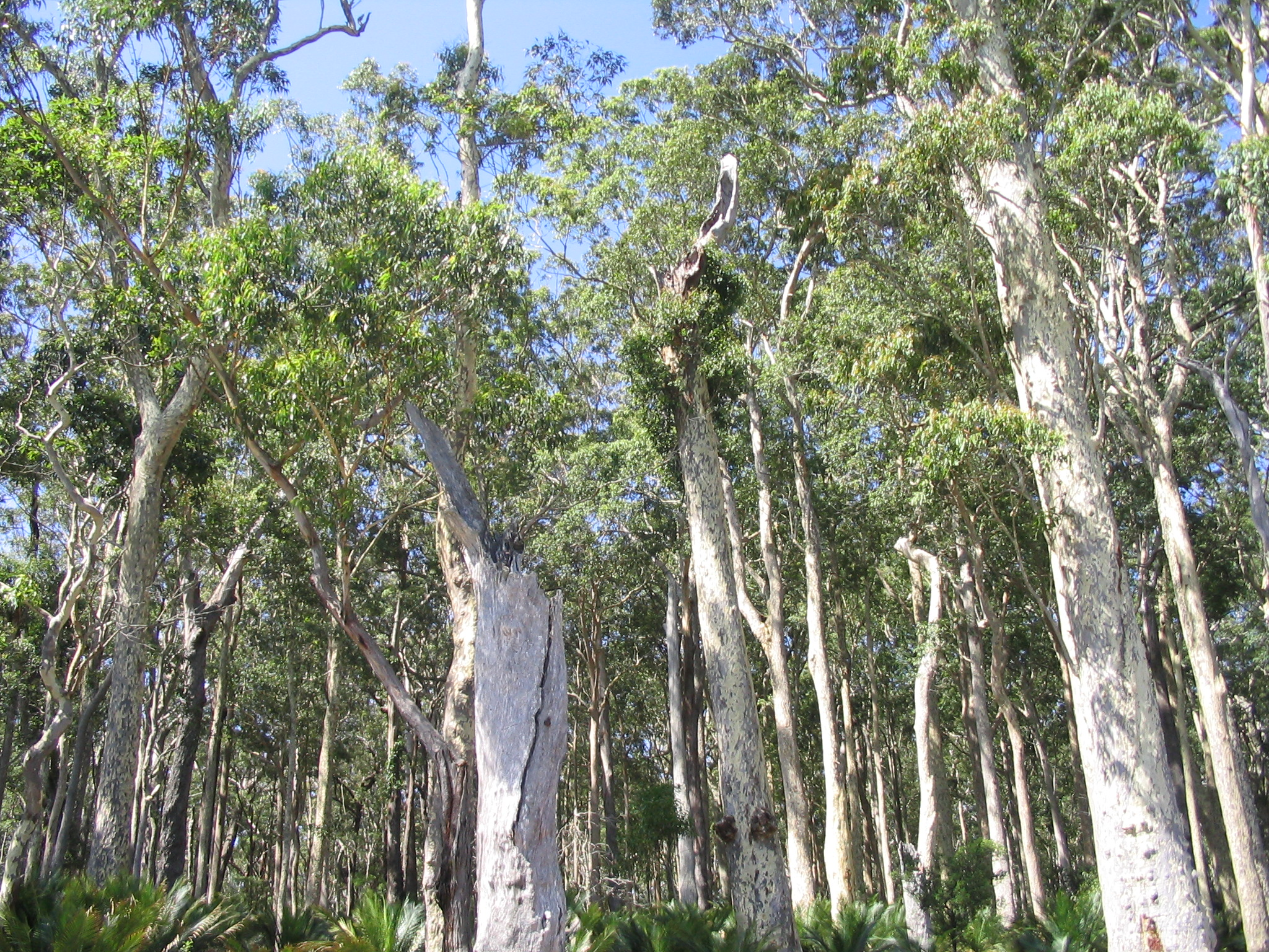 Bushland (dry Eucalyptus forest) adjacent to Durras Lake, NSW, Australia.